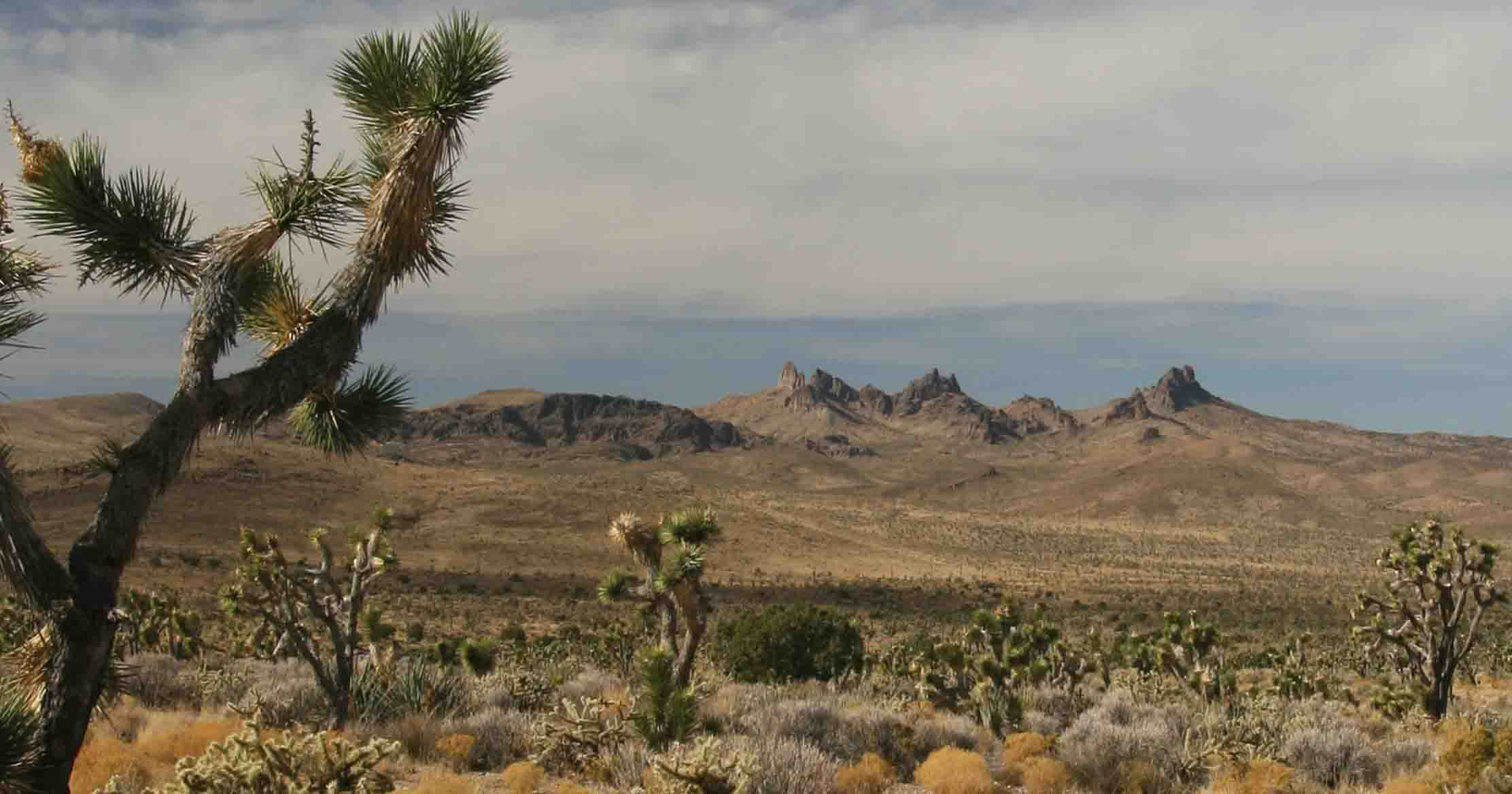 The Castle Mountains range and Johua tree (Yucca brevifolia) woodland, in the Eastern Mojave Desert and within Castle Mountains National Monument (est. 2016), San Bernardino County, California.